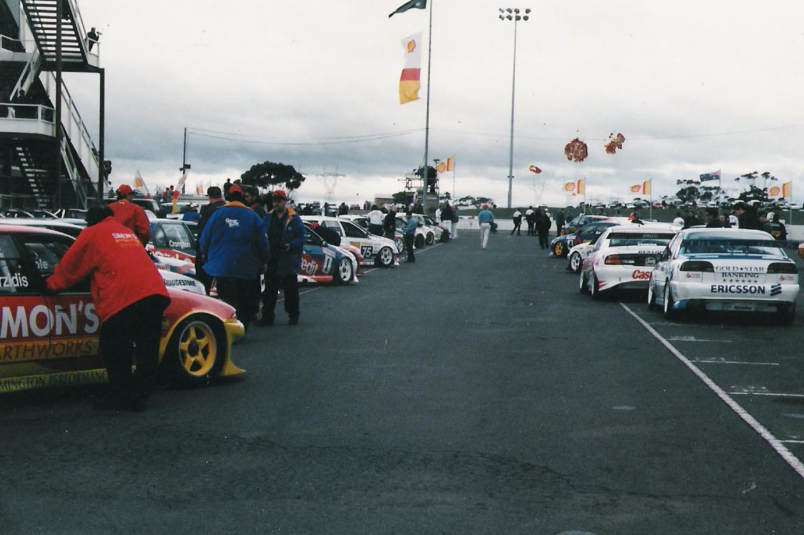 V8 Supercars lining up in the dummy grid before race 1 at Calder Park Raceway, 1998.